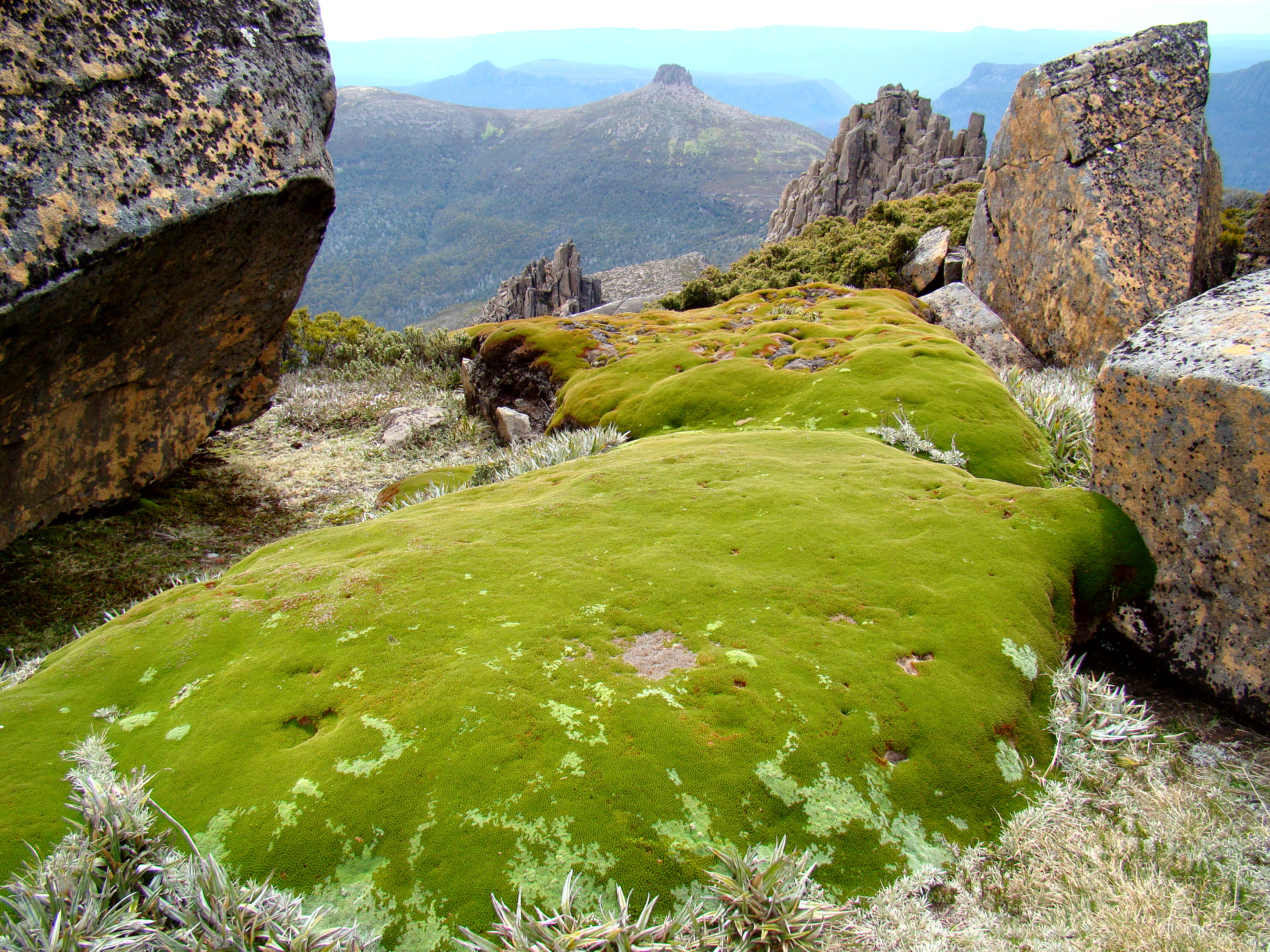 A large section of cushion plant (Donatia novae-zelandiae) growing just below the peak of Mount Ossa, Tasmania, Australia, at roughly 1600 metres above sea level.